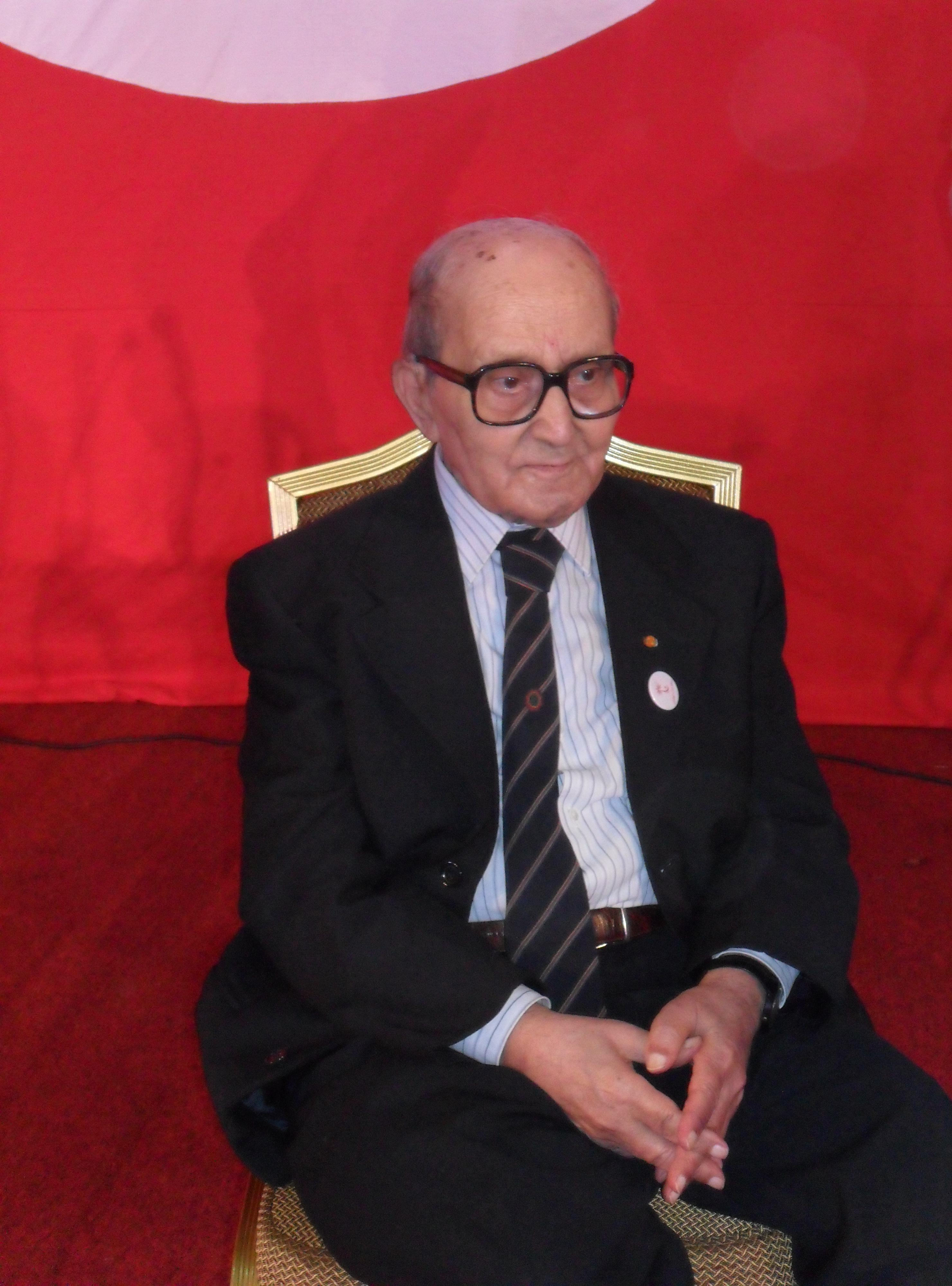 Mohamed Talbi (1921-2017), Tunisian historian and Islamic scholar